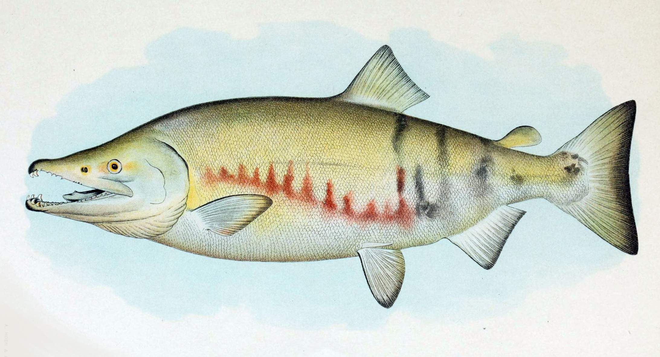 Dog Salmon, Breeding Male